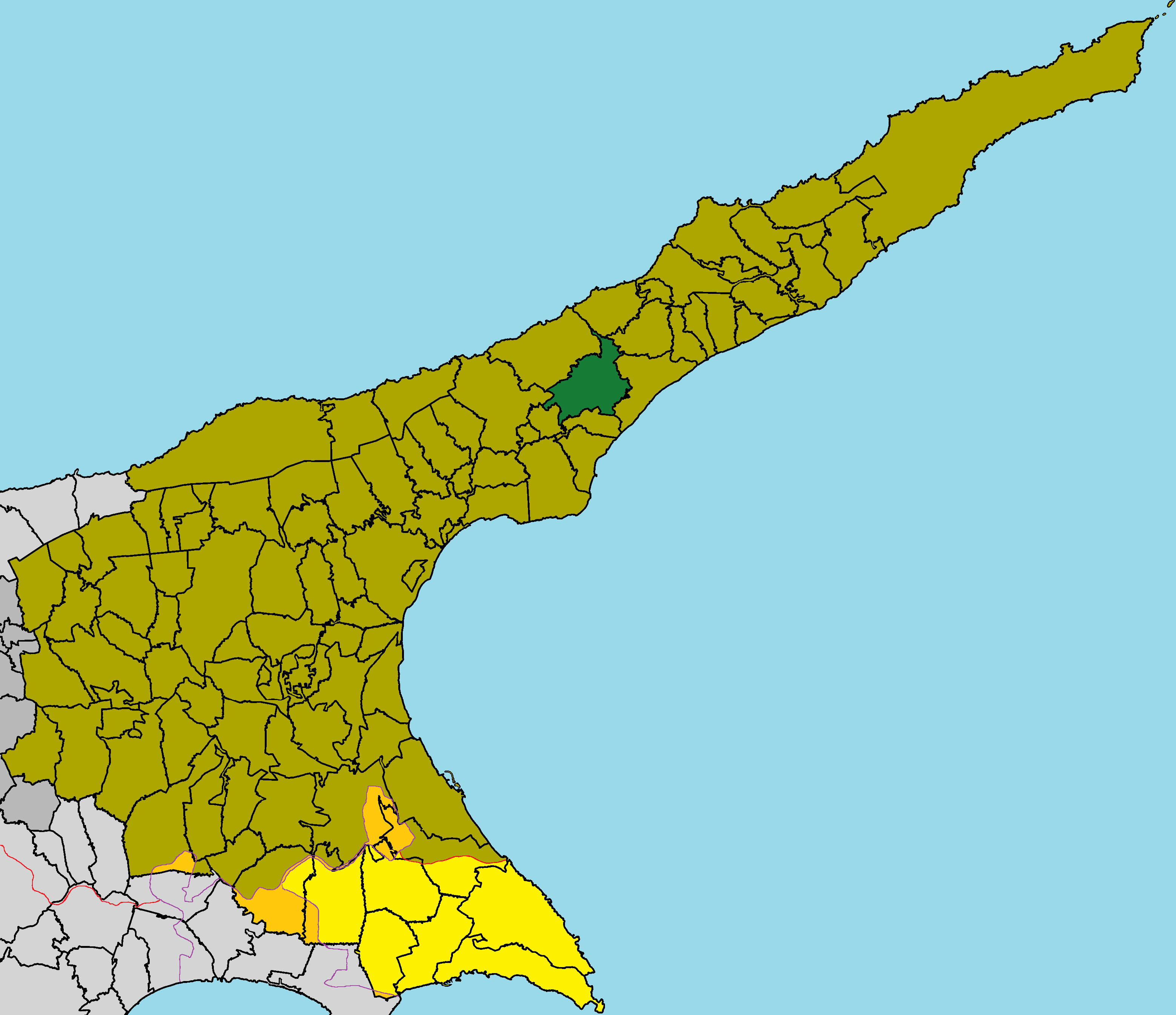 Galateia in Famagusta District (de jure).